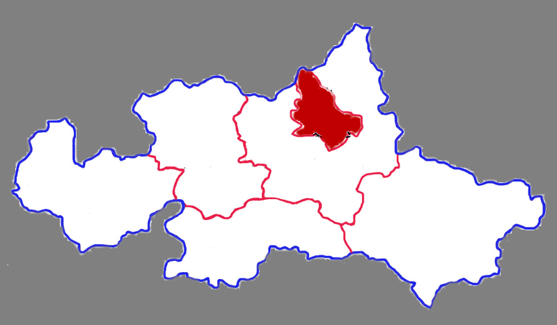 Location of Taishan district in Taian City, China